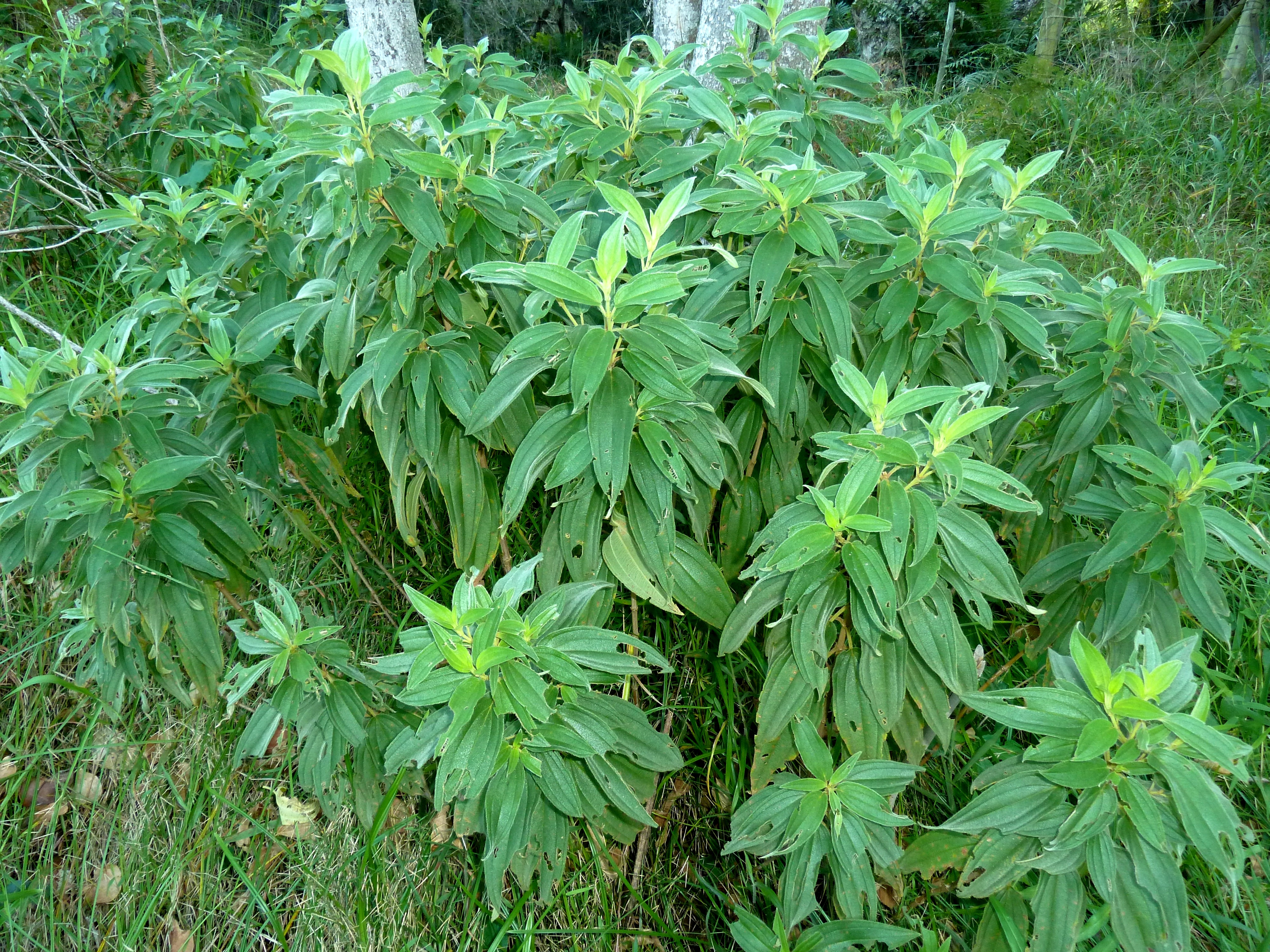 Wild tibouchina beside the upper mPhiti river in Krantzkloof Nature Reserve, KwaZulu-Natal